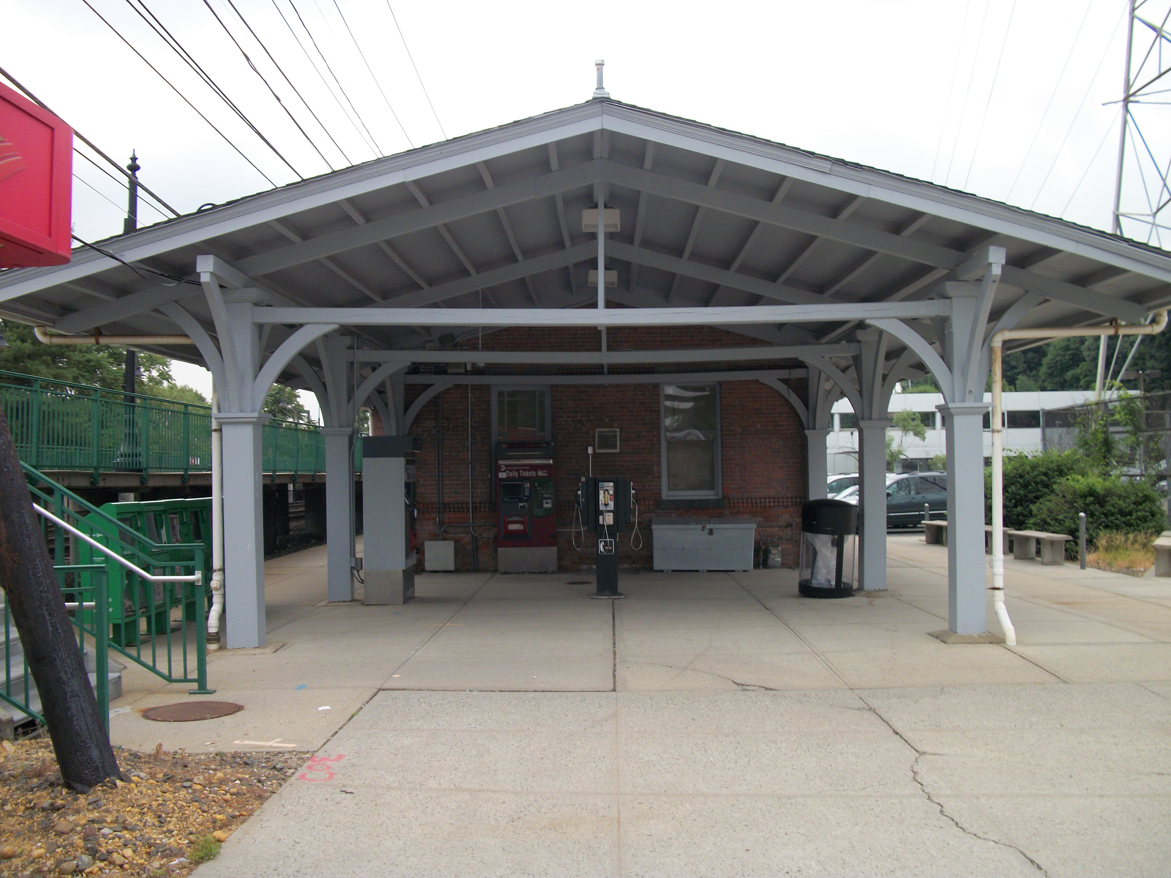 The north canopy for Roslyn (LIRR station) in Roslyn, New York. Originally this was a place where horse carriages parked, and later brass era automobiles, when they were small enough. Now it shelters a ticket vending machine, pay phones, and garbage pails, one of which was being changed by a woman who works for the LIRR's maintenance crew that day.